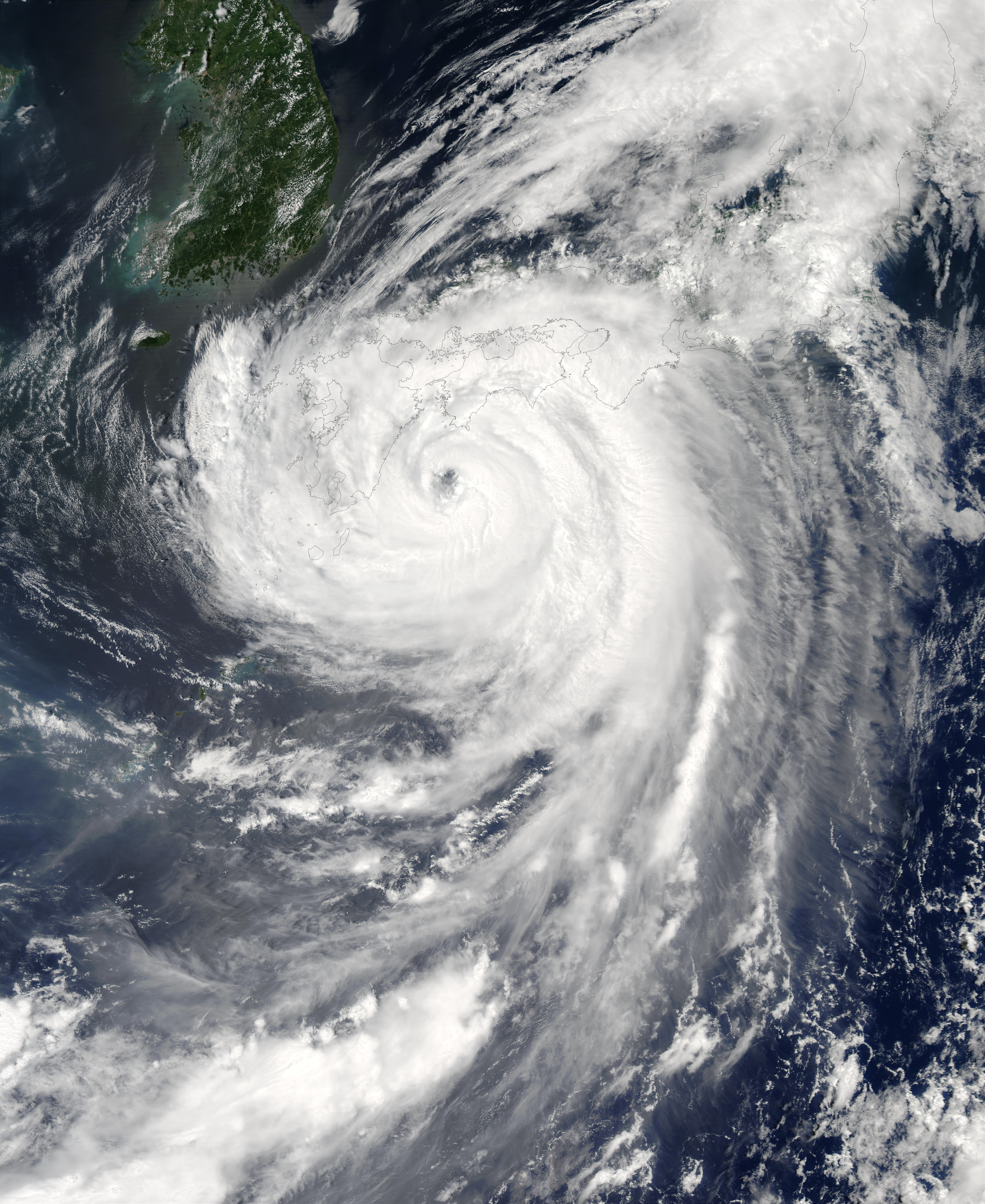 The MODIS instrument on NASA’s Aqua spacecraft captured this bird’s-eye view of Typhoon Etau as it was battering Kyushu, the southernmost of Japan’s four main islands, with torrential rains and strong winds. At the time of this image Etau was packing sustained winds of 90 kilometers per hour and was expected to dump as much as 70 cm (27 inches) of rain over the next 24 hours over southern Japan. Etau means “storm cloud” in the language of the Pacific island Palau.